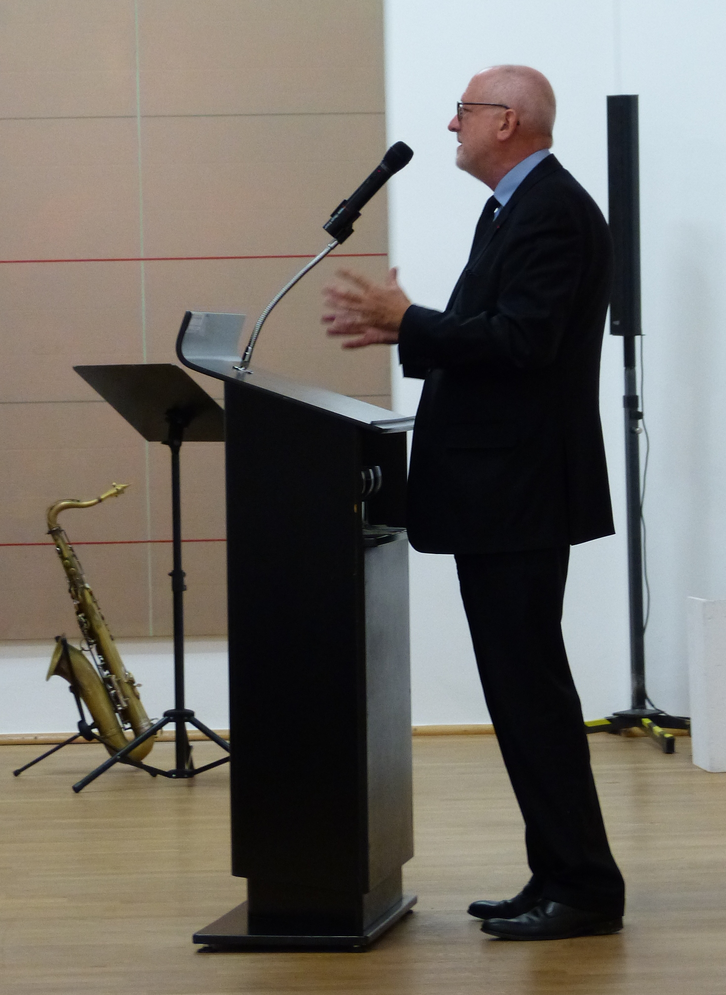 Lóránd Hegyi, Ludwig Museum Koblenz, Exposition "Sean Scully. Figure Abstract". Vernissage 2014, 8. 31